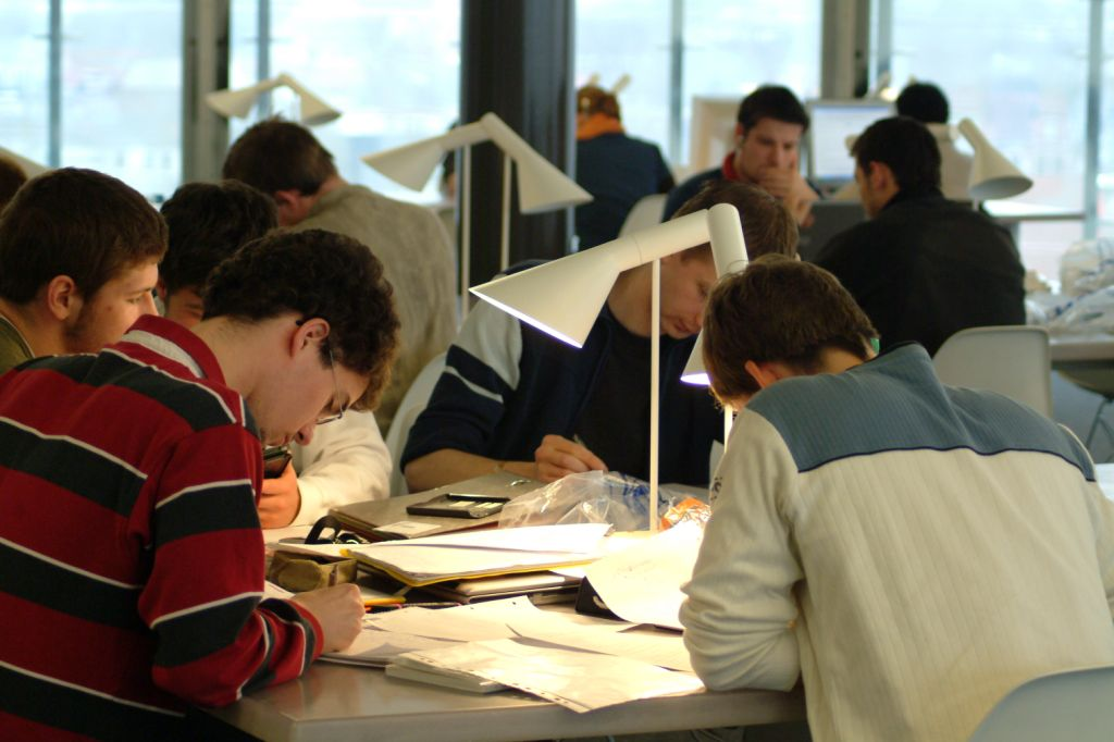 Students inside of the information communication and multimedia center Cottbus (IKMZ)